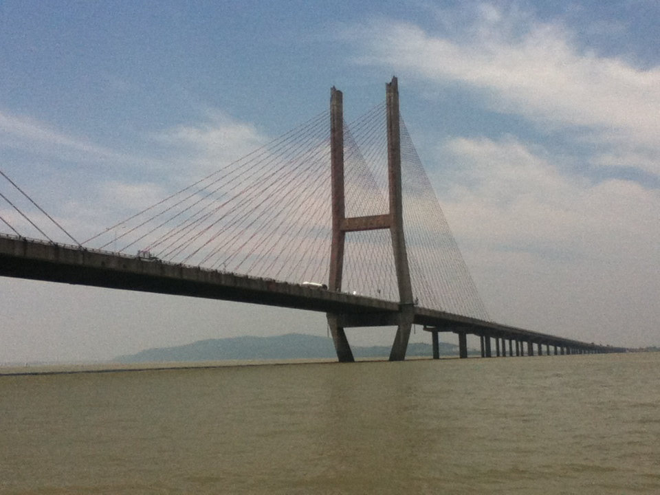 Poyang Lake Bridge in JiangXi, China